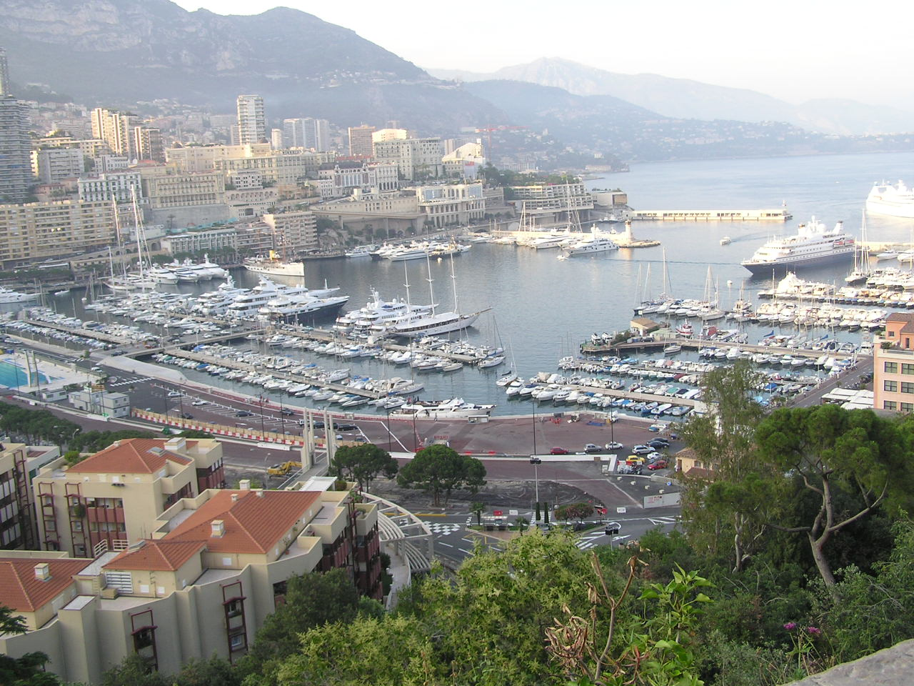 Monaco city and harbour view This was taken by me (Filip Maljkovic) on June 26th, 2004 at 19:45, when I was in Monaco, so I didn't violate any copyright law.